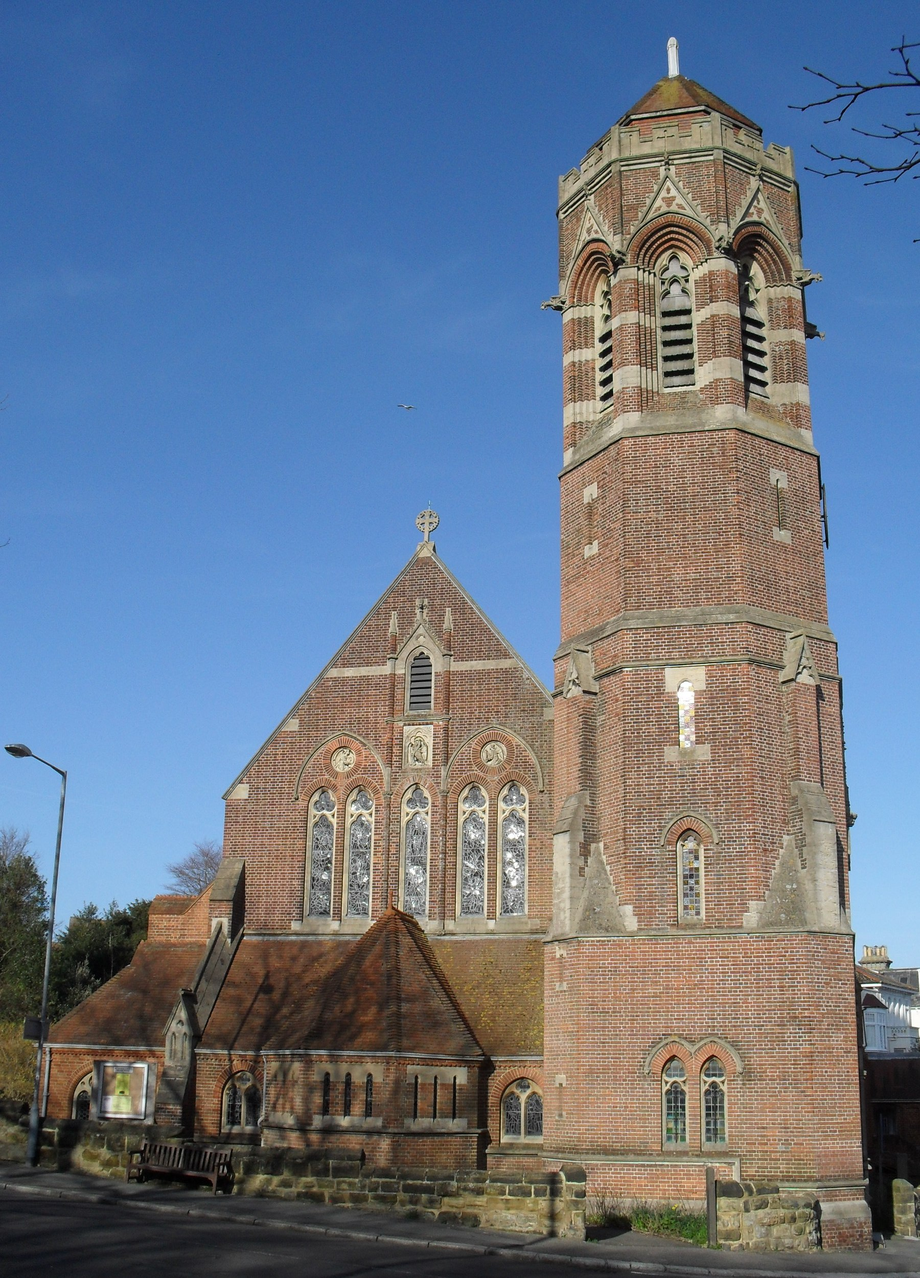 St John the Evangelist's parish church, Upper Maze Hill, St Leonards-on-Sea, Hastings, East Sussex, England, seen from the west. The church was designed by Sir Arthur Blomfield and built in 1881. It was damaged in the Second World War and rebuilt 1950–54 to designs by HS Goodhart-Rendel after being damaged during World War II. The southwest tower is the main surviving part of the original building.